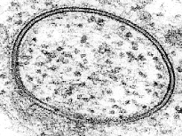 Annular Gap Junction Vesicle